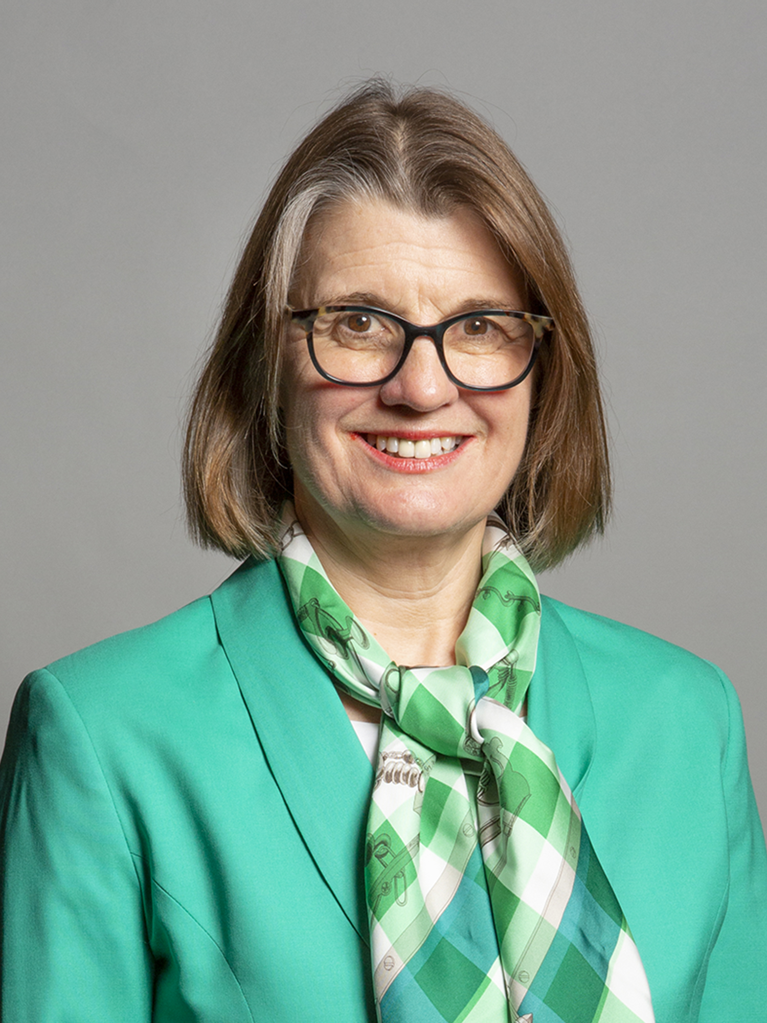 Official portrait of Rachel Maclean MP 3×4 portrait of Rachel Maclean